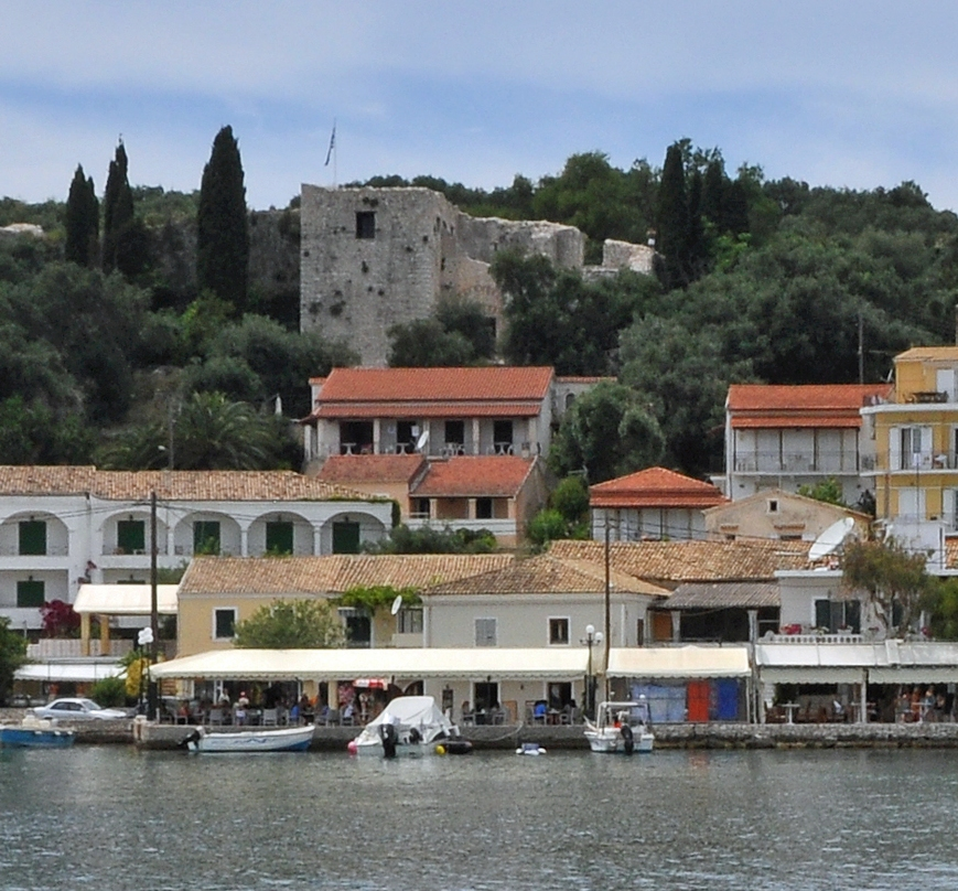 Kassiopi Castle